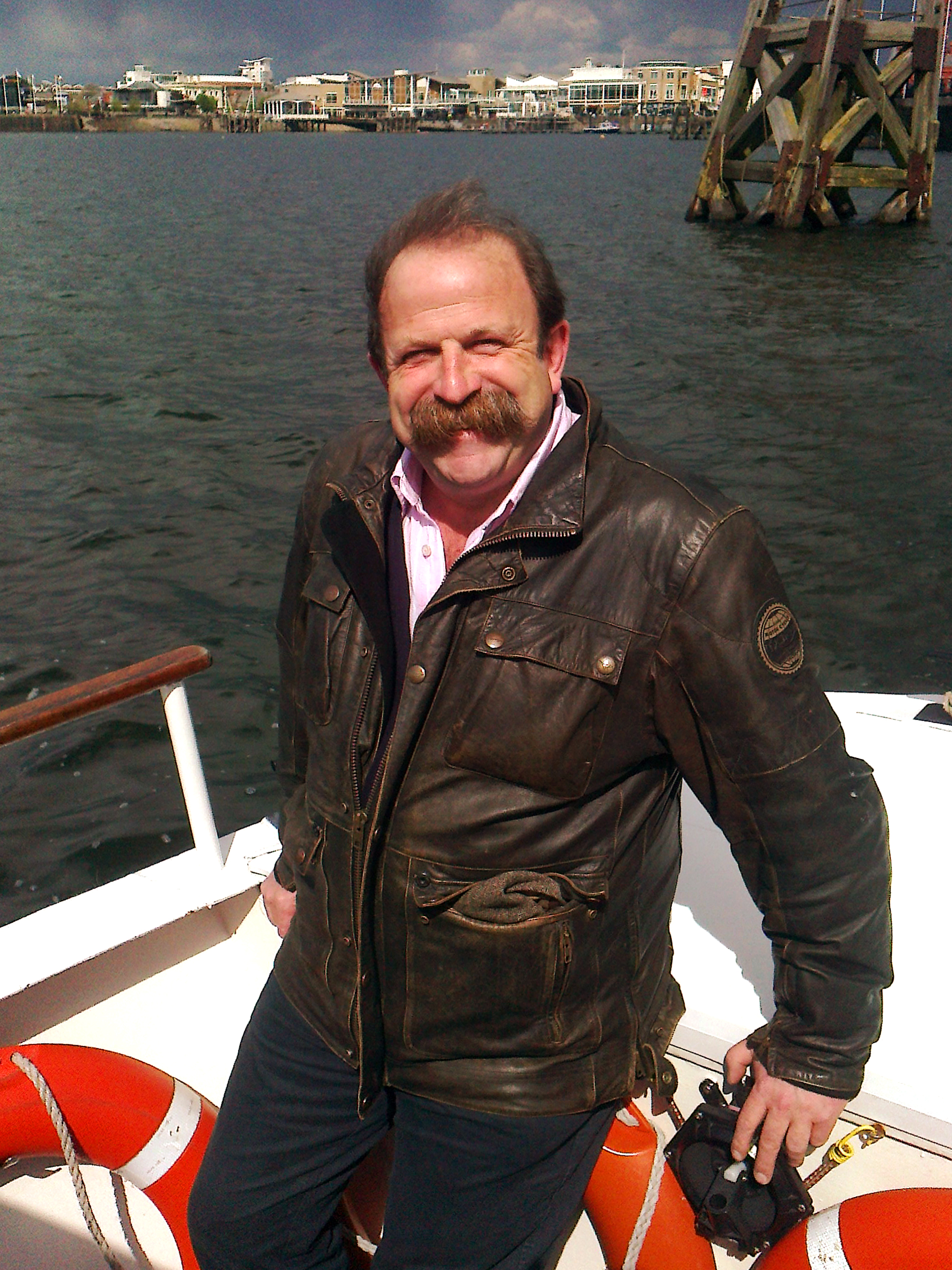 described on Flickr as'I had that Dick Strawbridge off the telly and a film crew on board today, doing some filming for a new museum. What a nice chap. The weather was a bit unkind as we dodged some pretty heavy downpours.'